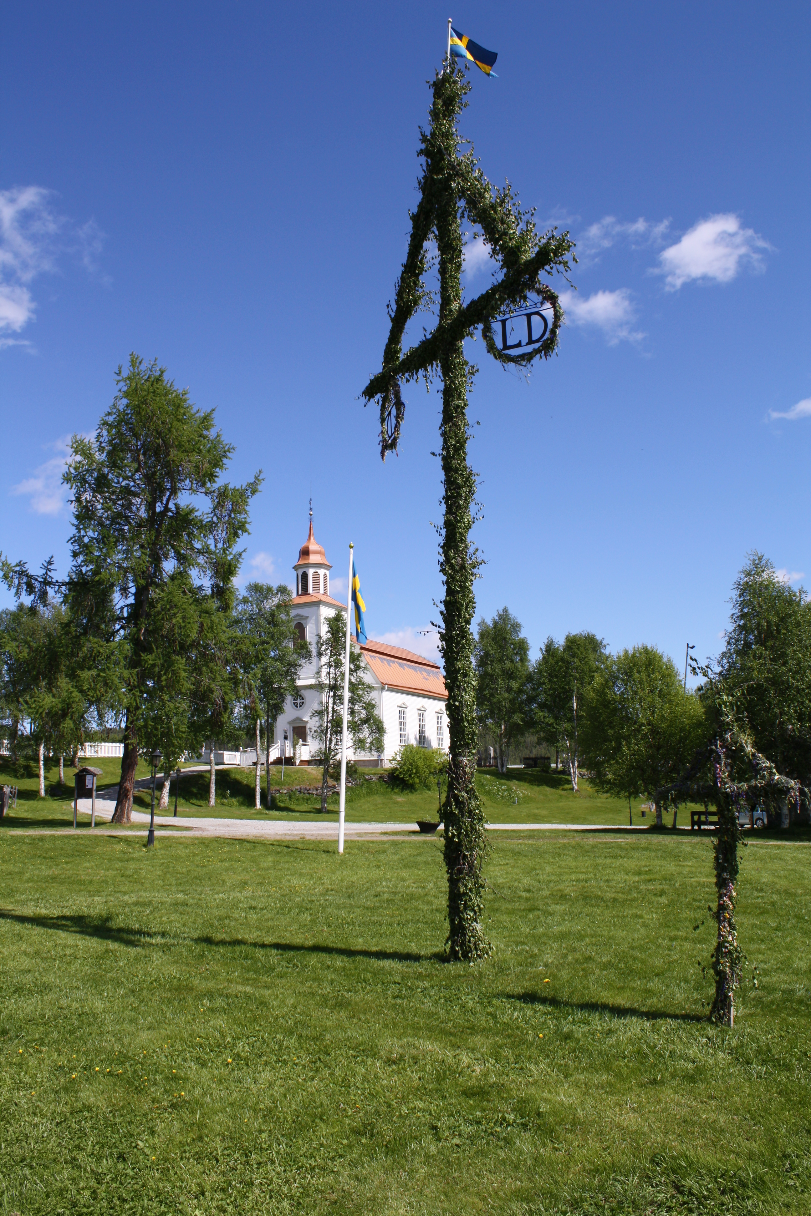 Maypole in Ljusnedal, with Ljusnedal church in the background.